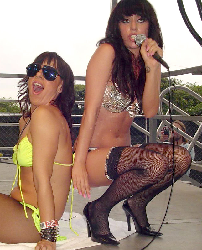 Lady Starlight (left) and Lady Gaga (right) performing at Lollapalooza, 2007.